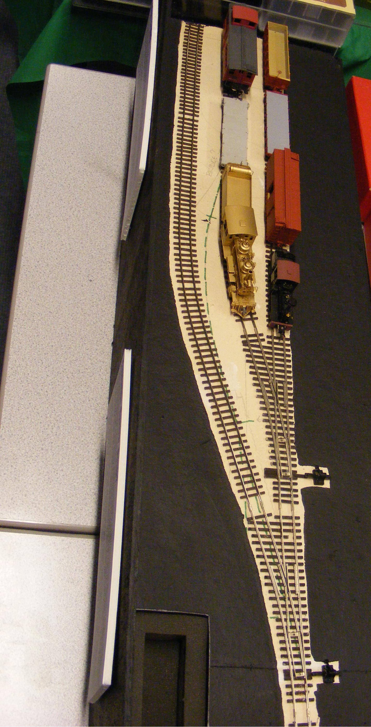 A small fiddle yard (staging yard) on the HOn3 Malpaso County RR